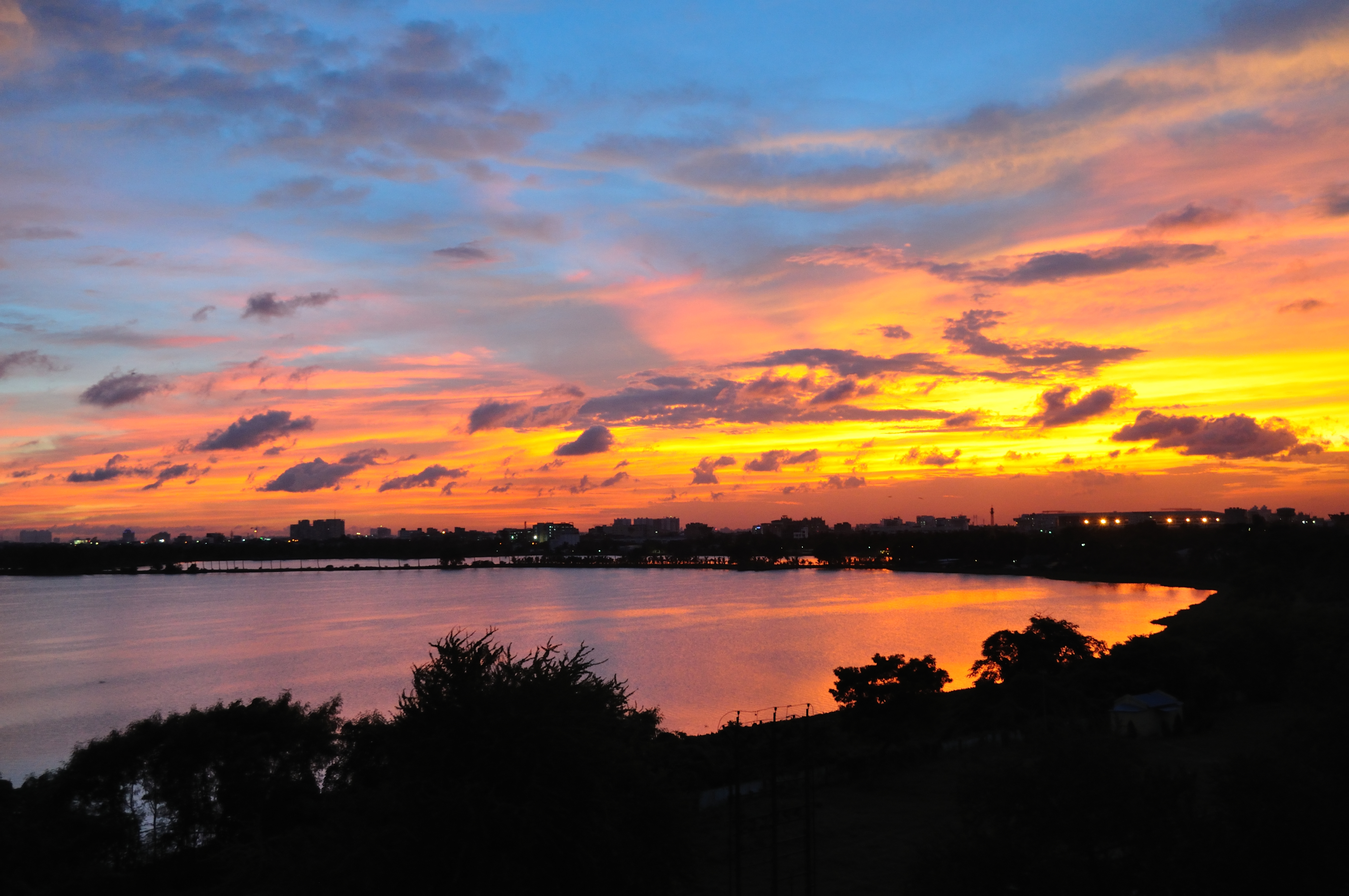 Fascinating autumn clouds occurred during sunset on 18th October 2011 over Kolkata sky. This photograph taken from Bidhan Nagar or Salt Lake city, Kolkata, towards the Nalban water body. This media file is uploaded with India loves Wikipedia event.